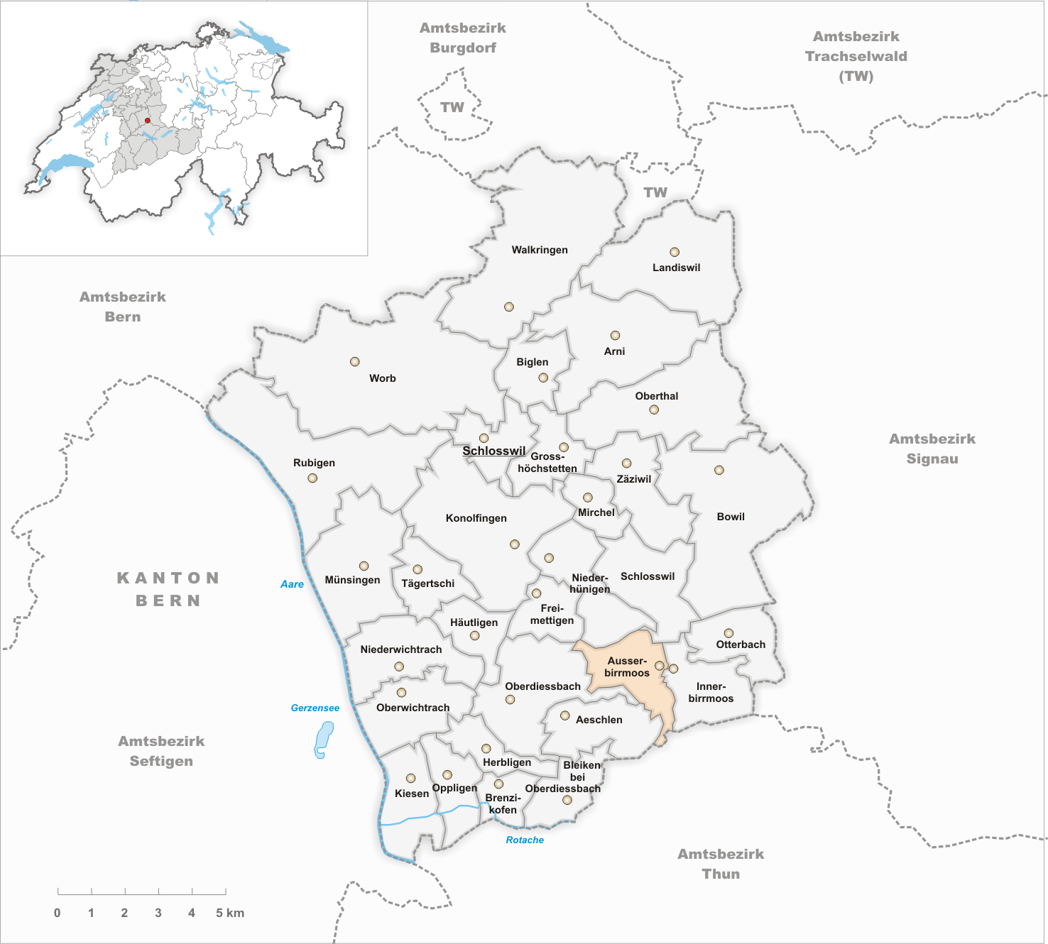 Municipality Ausserbirrmoos